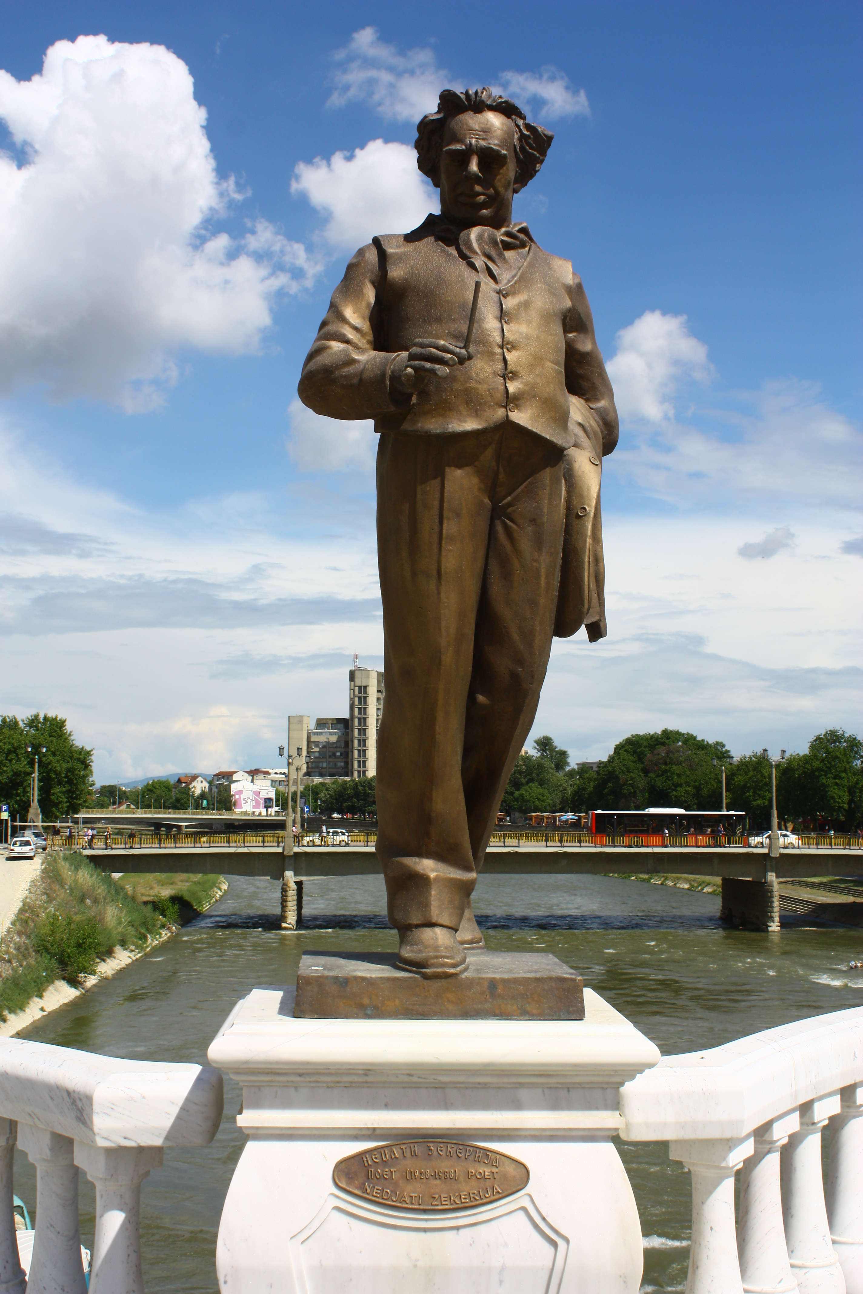 Sculpture od the Bridge of Arts in Skopje, Macedonia This image is uploaded as part of the picture contest Wiki Loves Cultural Heritage in Macedonia 2013. English | македонски | +/−